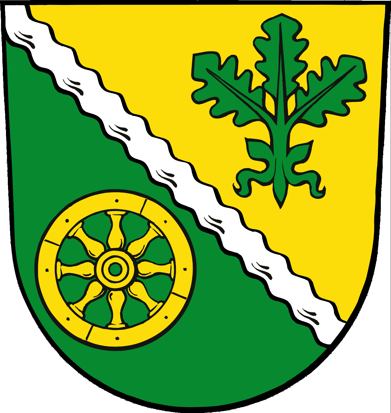 Coat of Arms of Barum